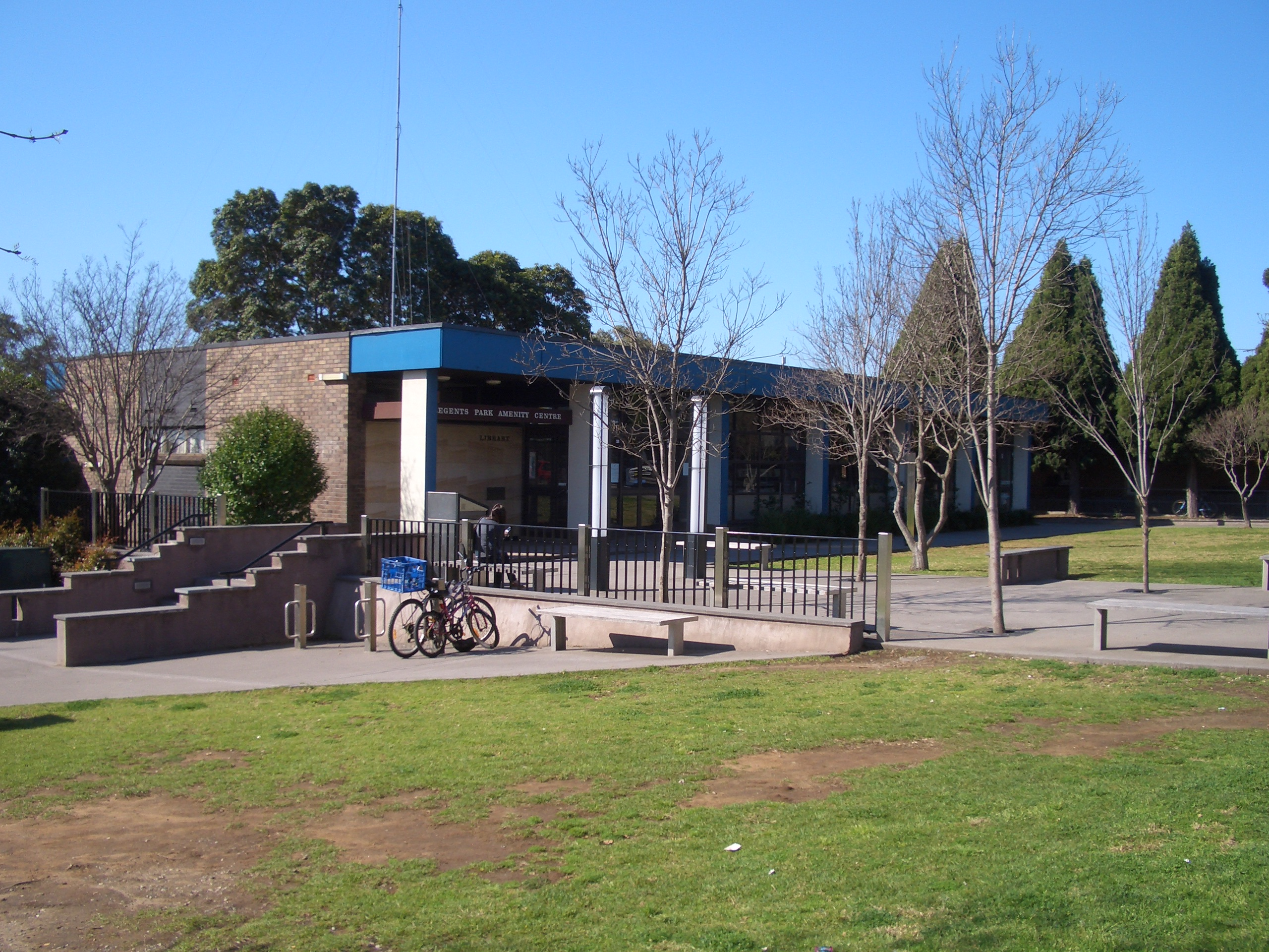 Regents Park Amenity Centre, Sydney